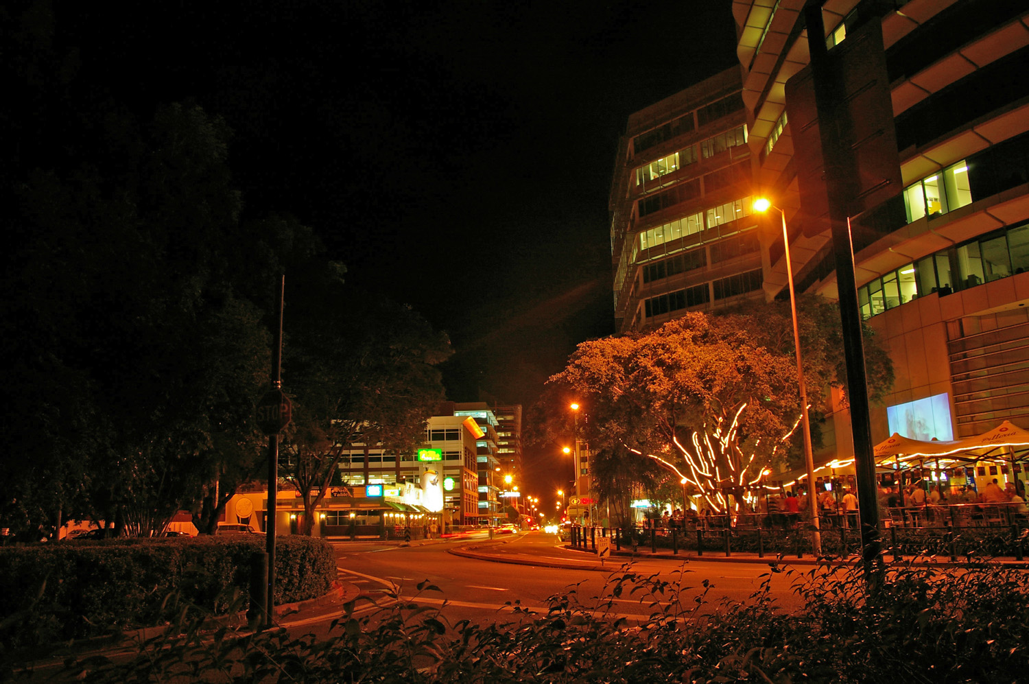 Mitchell Street in Darwin's CBD at night.